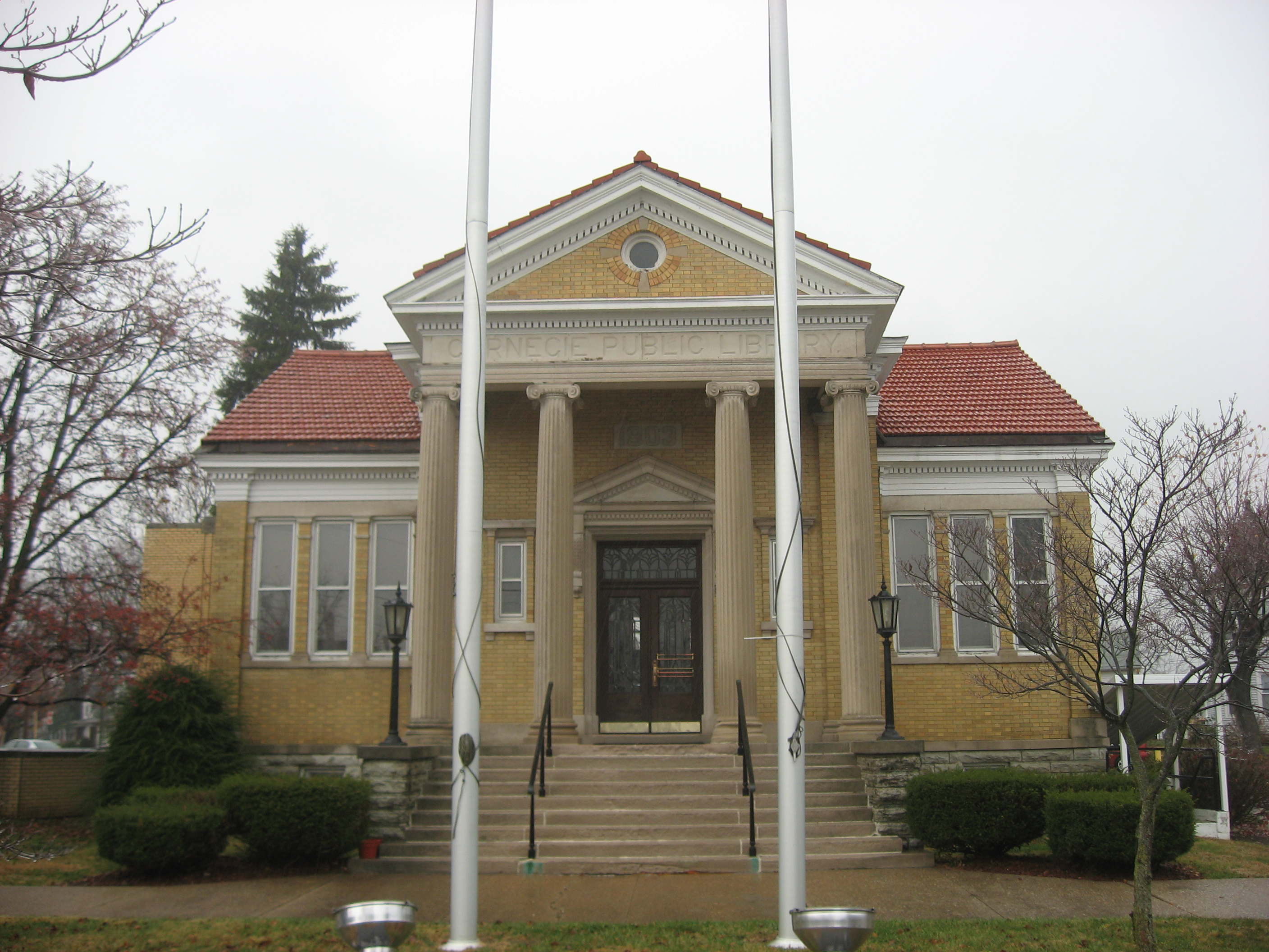 Front of the former Greensburg Carnegie Public Library, located at 114 N. Michigan Avenue in Greensburg, Indiana, United States. Built in 1904 and later converted into the city hall, it is listed on the National Register of Historic Places.